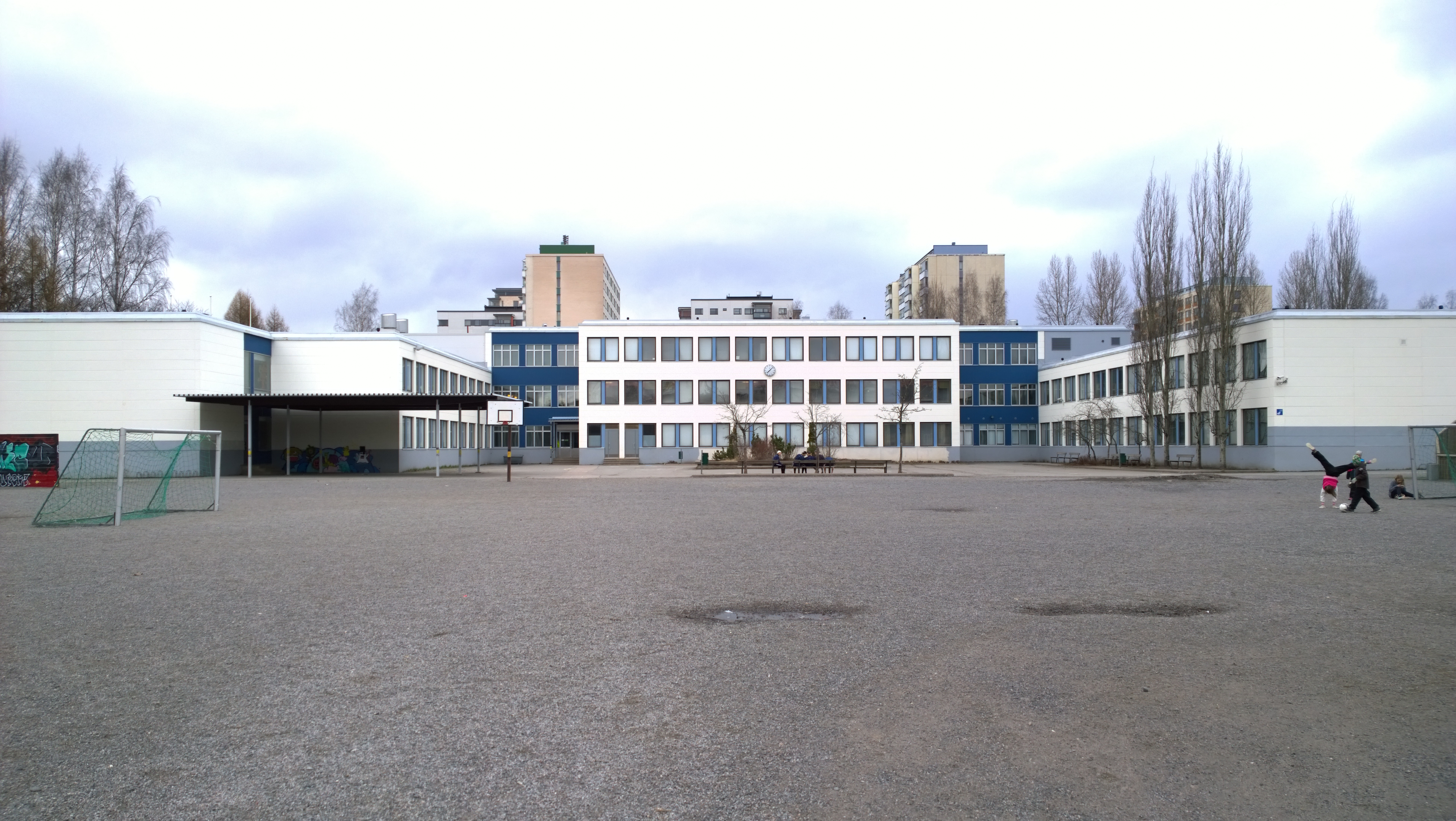 Kaukajärvi school